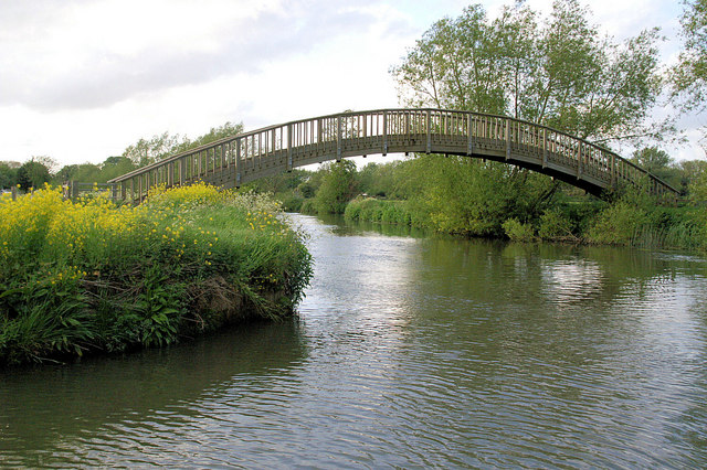 Bloomer's Hole Footbridge, carying the Thames Path over the River Thames between Lechlade, Gloucestershire and Buscot, Oxfordshire (formerly Berkshire)